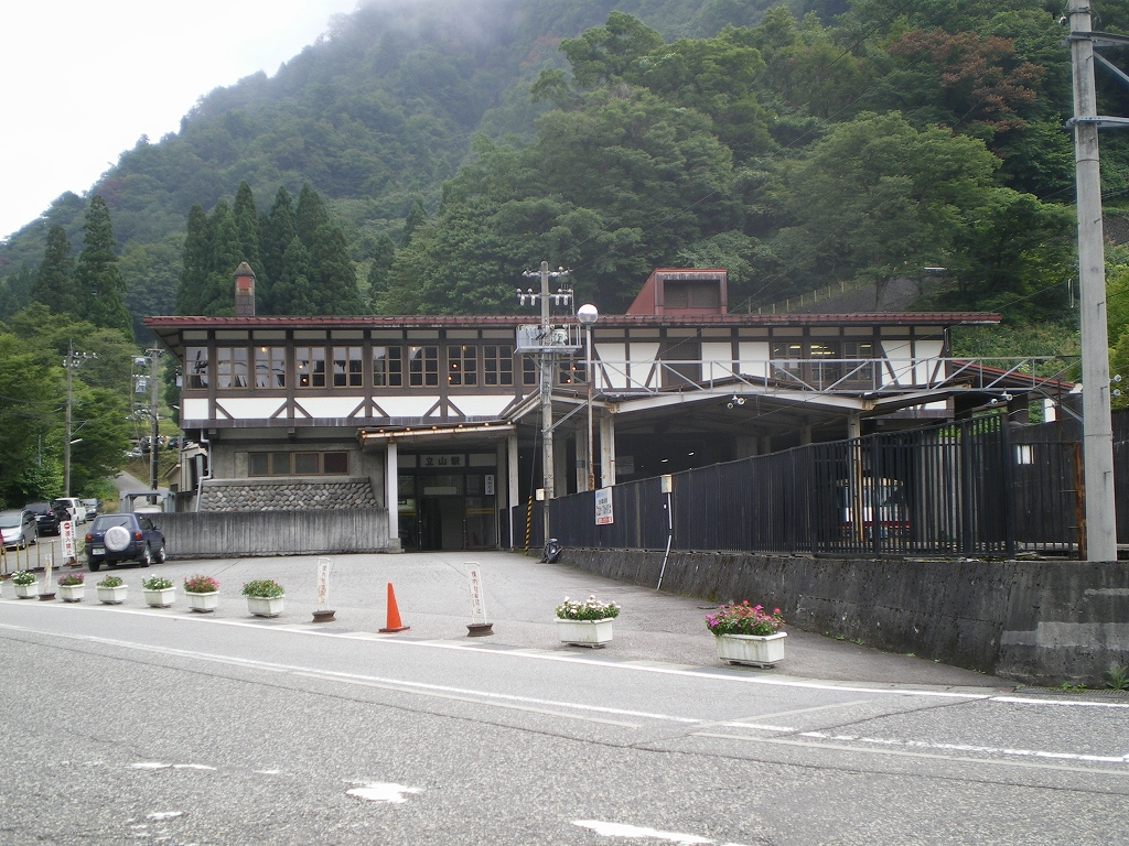 Toyama Chihou Railway Tateyama Line Tateyama Station Building